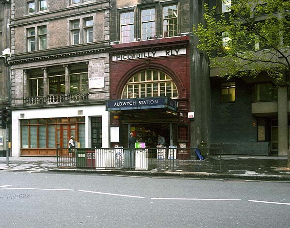 Aldwych station Reduced to just peak-hour openings, taken shortly before its closure on September 30 1994. This poorly used and badly treated former underground station is now used for filming.